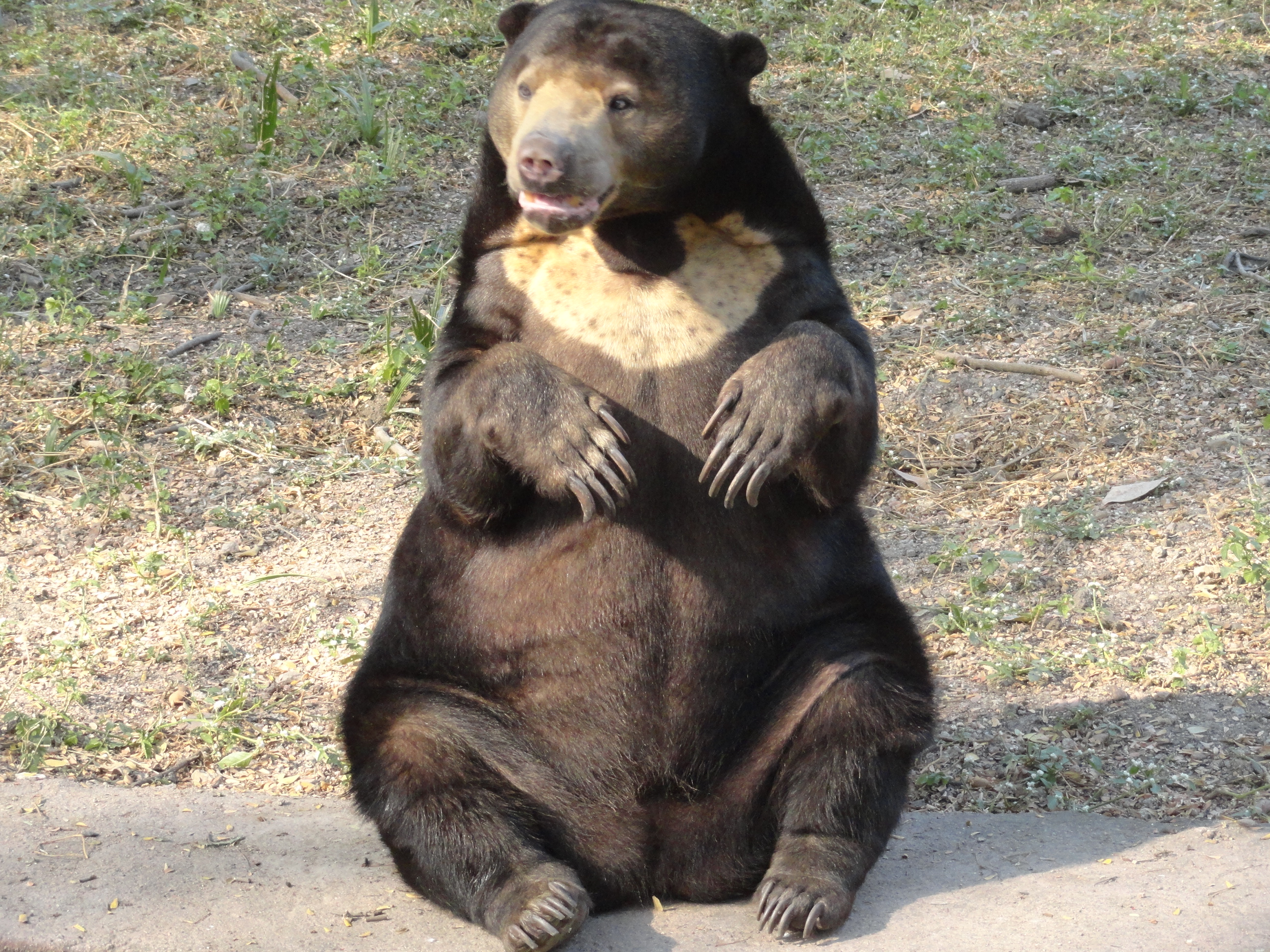 bears can sit like this